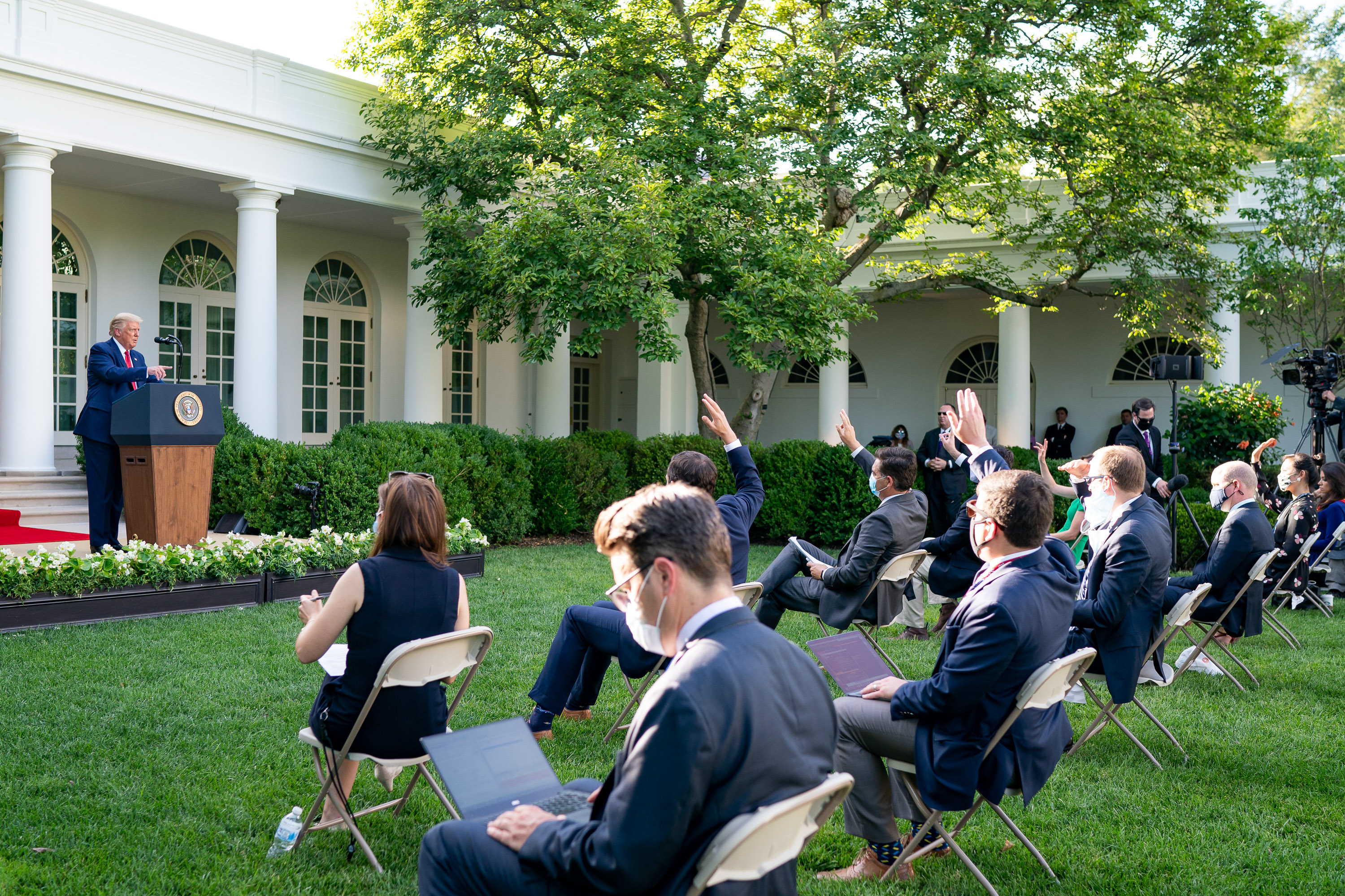 President Donald J. Trump answers reporter’s questions at a press conference Tuesday, July 14, 2020, in the Rose Garden of the White House. (Official White House Photo by Tia Dufour)